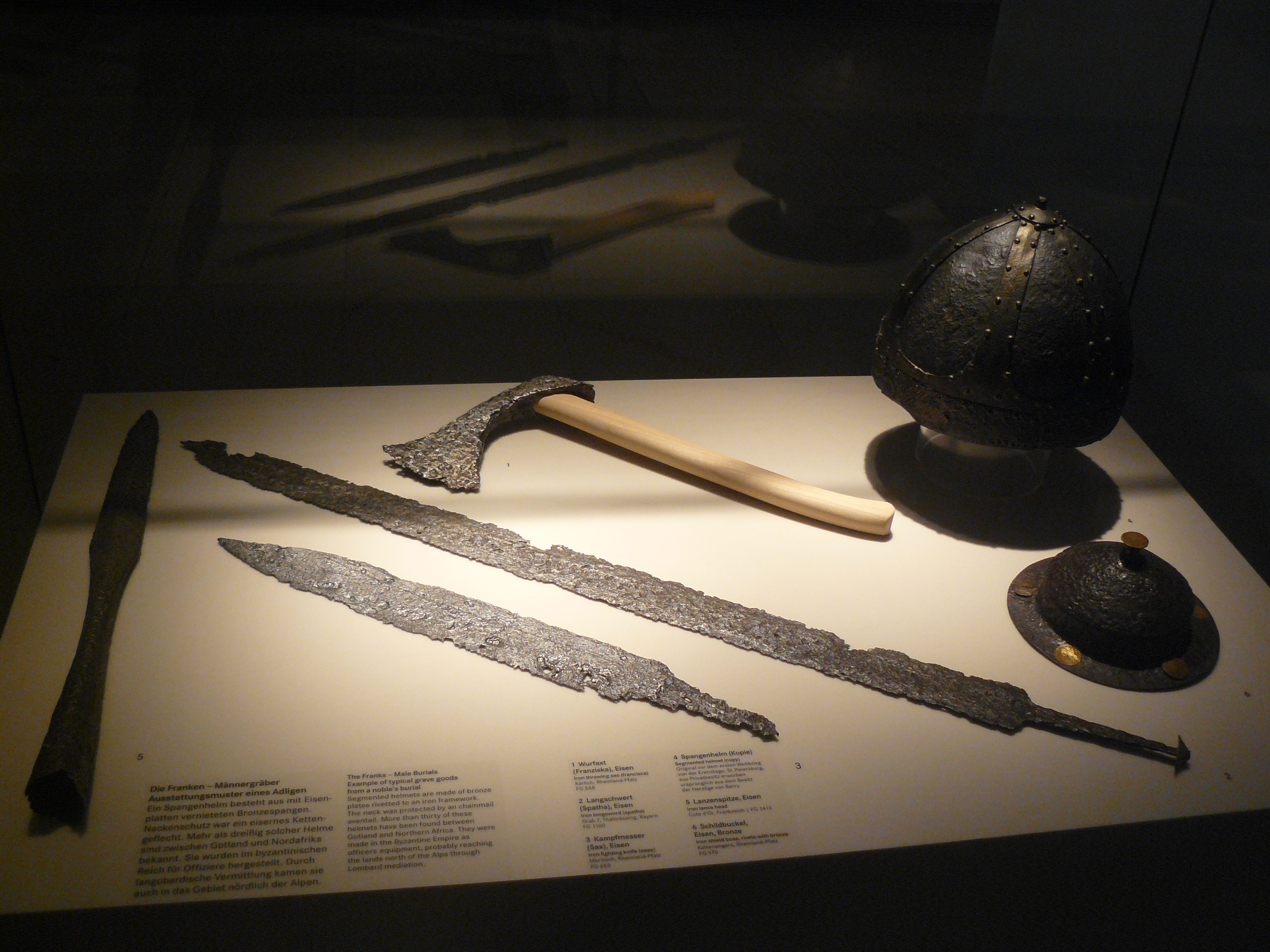 Arms and Armours of a typical noble frankish warrior. 5th-6th century (1) Francisca, (2) Spatha, (3) Sax, (4) Segmented helmet (original in Eremitage St. Petersburg), (5) Iron lance head, (6) iron shield boss. Germanisches Nationalmuseum, Nuremberg, Germany.